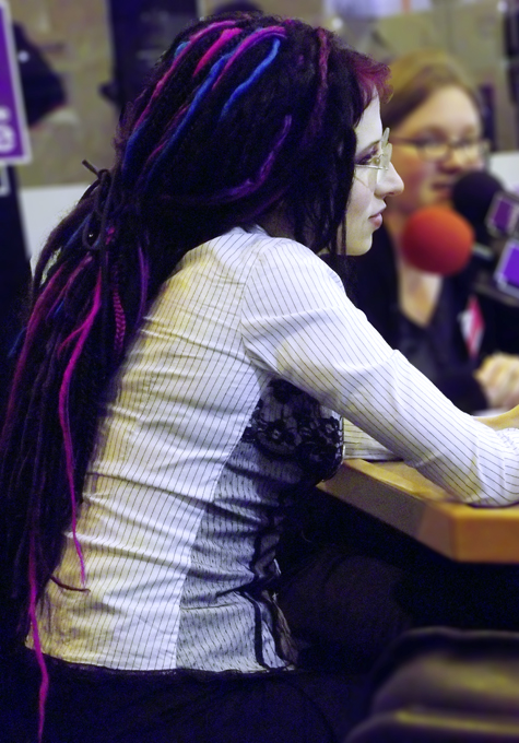 Sofi Oksanen, salon du livre, France culture, Paris, 18th March 2011 — 72dpi, 16,8 × 24cm.